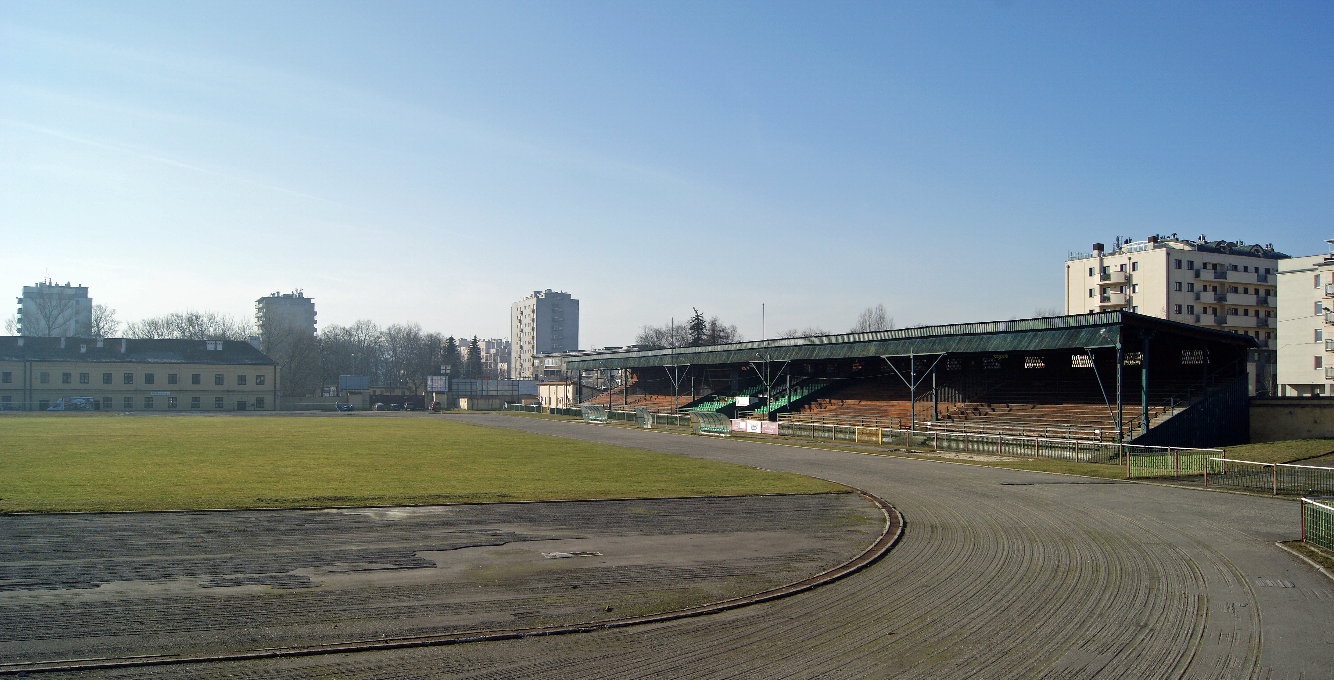 WKS Wawel Stadium, 3 Podchorążych street, Kraków, Poland